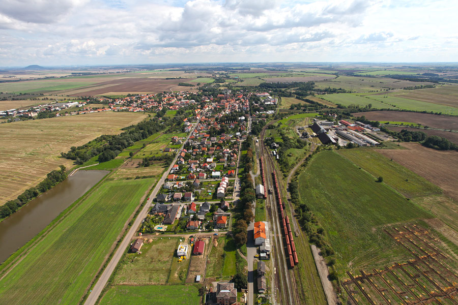 village Zlonice